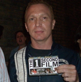 Bruce LaBruce